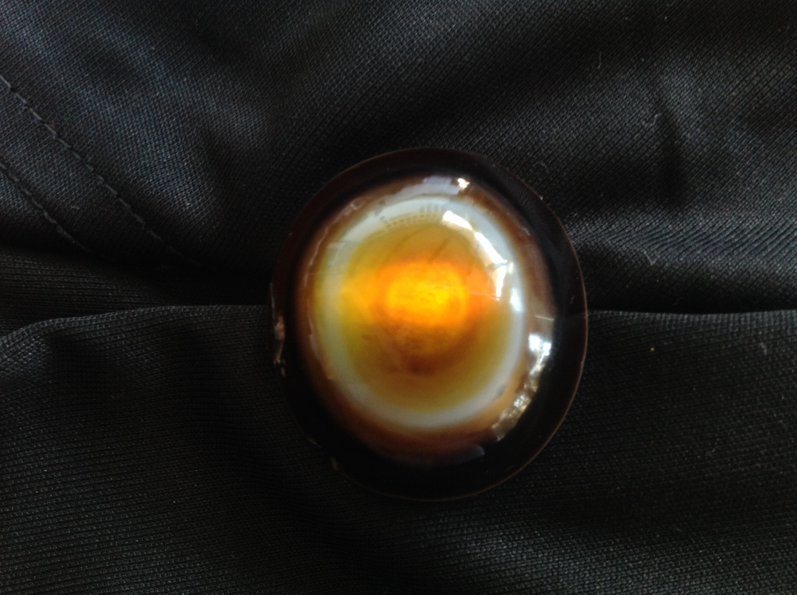 Picture taken with less light behind the stone in order to see inscription